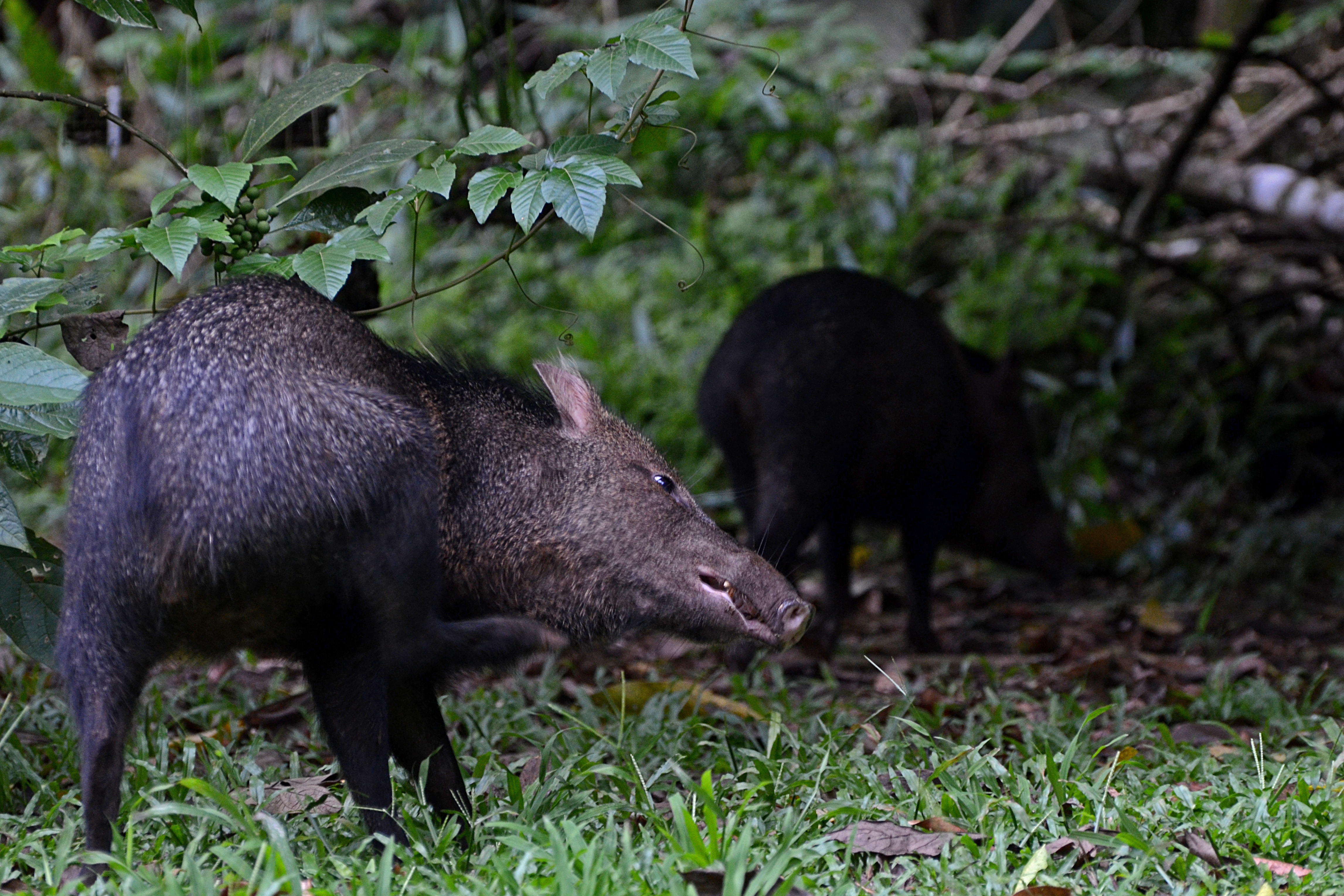 Collared peccary (Tayassu tajacu). Image taken in La Selva Biological Station, Costa Rica.